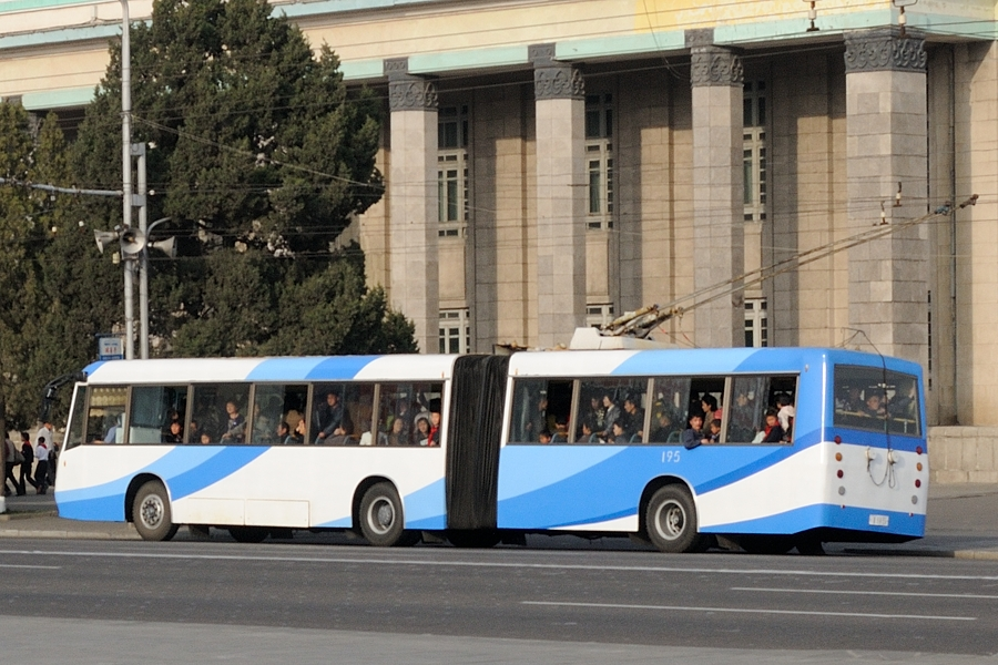 Chollima-091 195 in Pyongyang